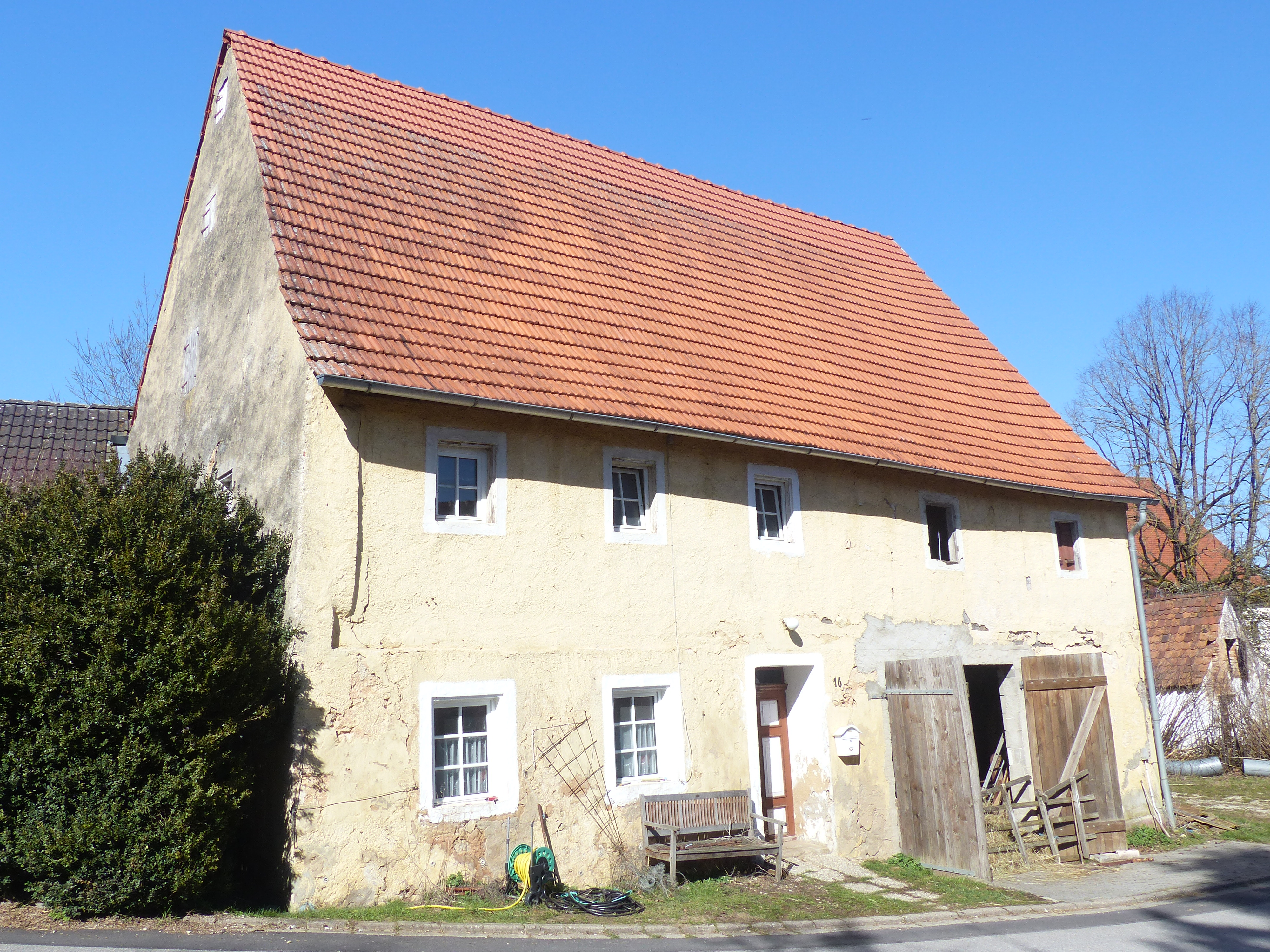 A farmhouse in the village Gerhardsberg, a district of the municipality Etzelwang